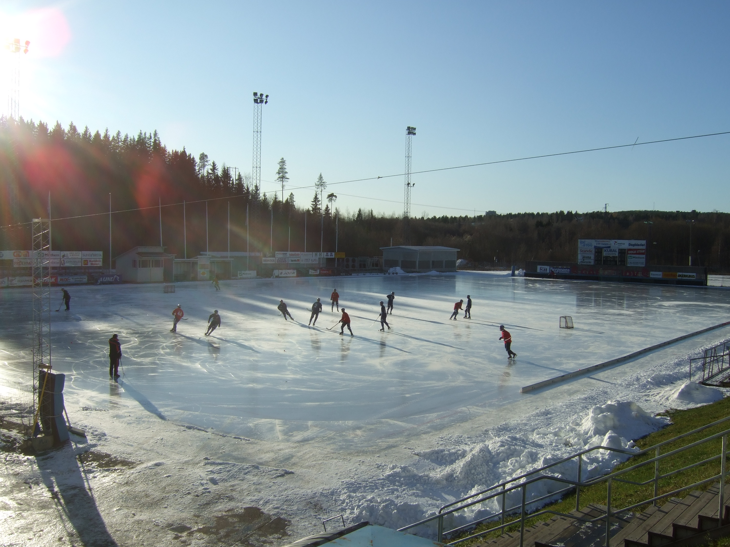 The bandy field at Gärdehov sports/fair centre, Sundsvall, Sweden